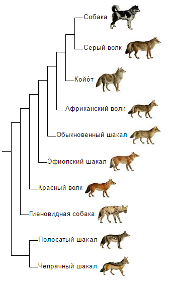 Phylogeny of wolf-like canids